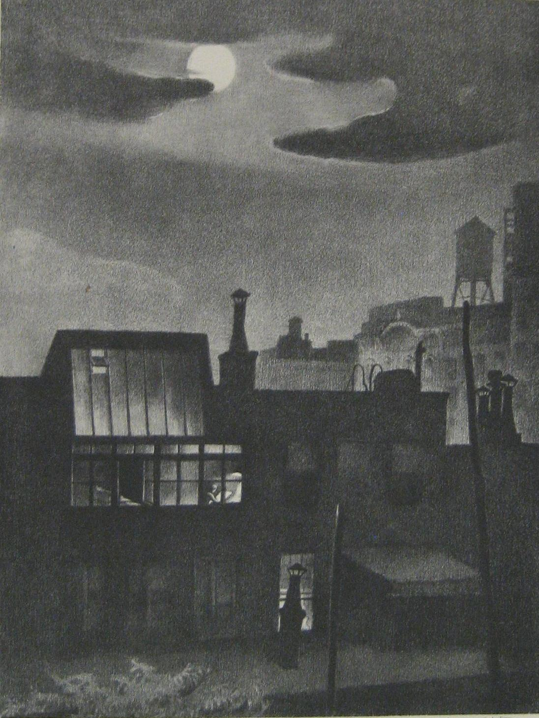 Mabel Dwight, Night Work, 1931, lithograph, 24.8 x 19 cm, edition of 40